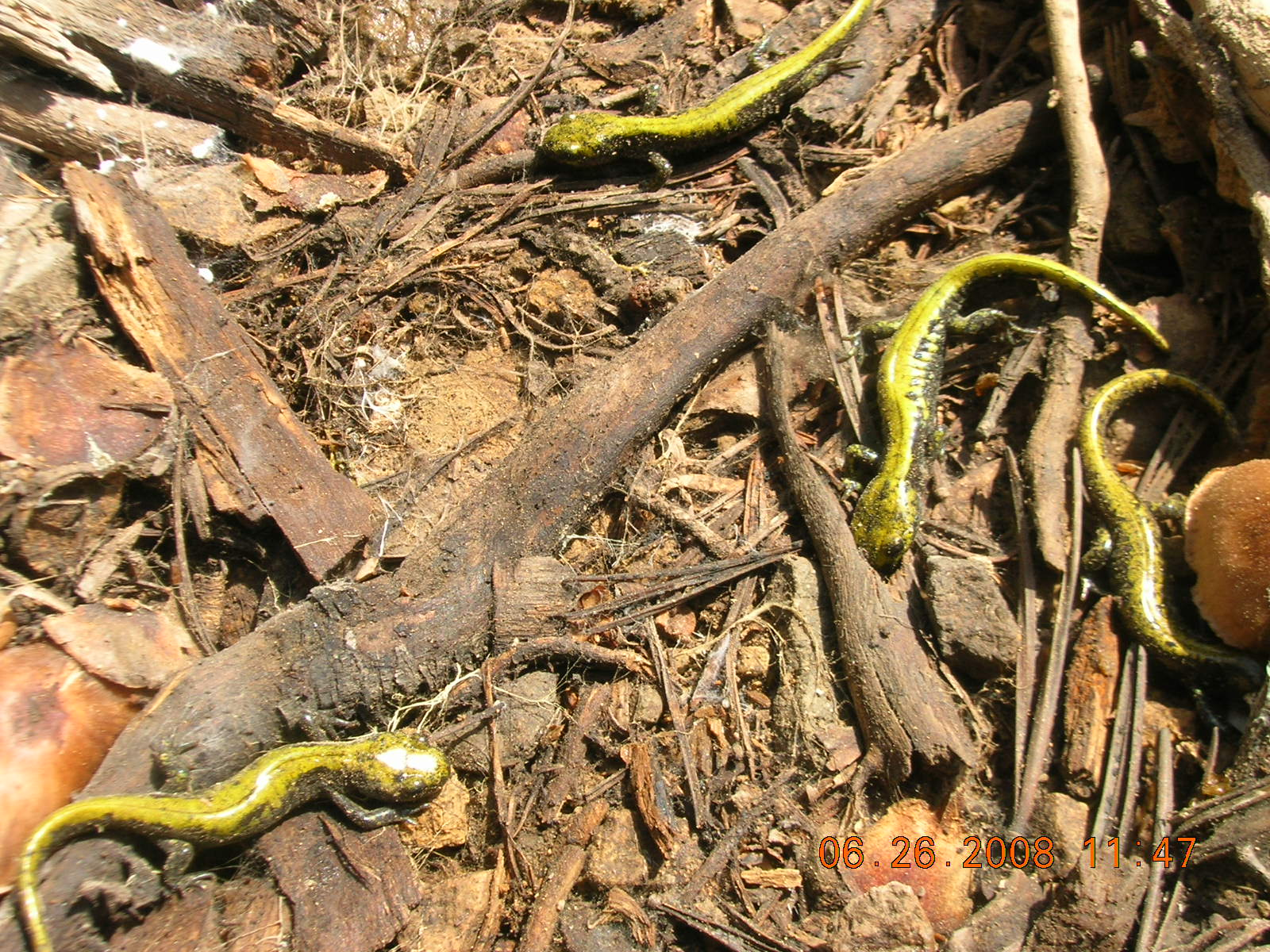 Long-toed salamanders (Ambystoma macrodactylum) in Sawtooth National Recreation Area, Idaho